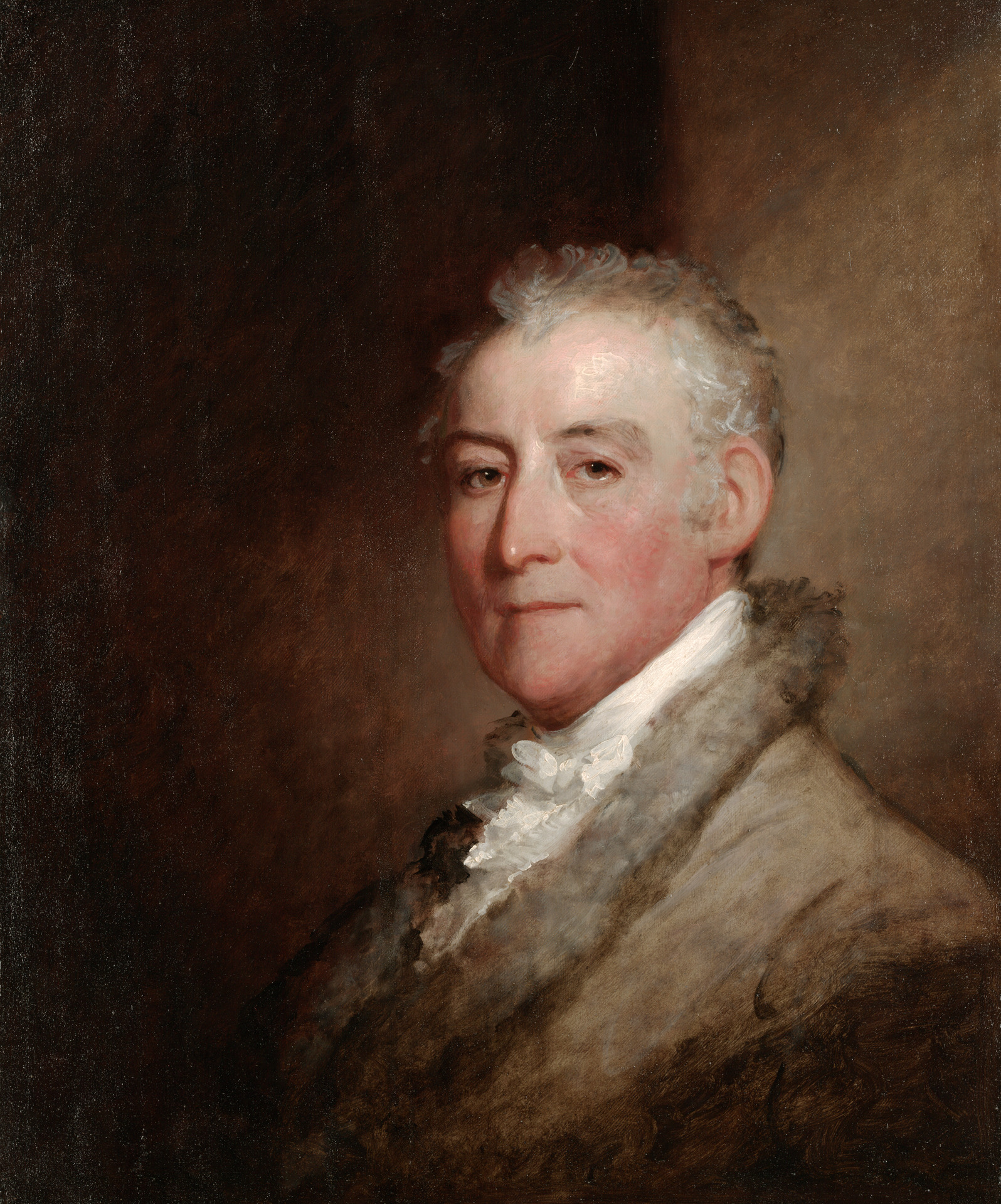 "John Trumbull". Courtesy of the Yale University Art Gallery.